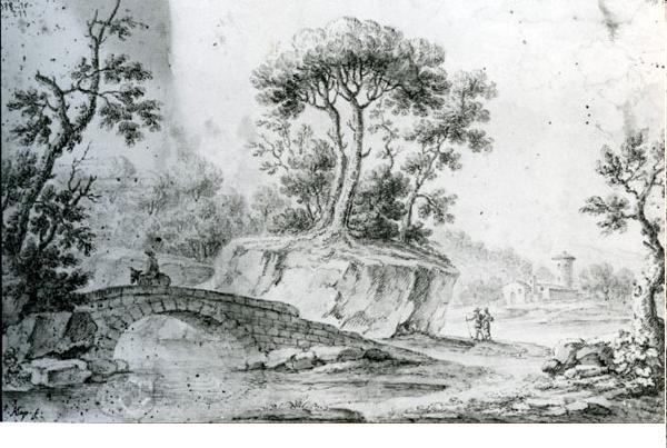 1760 Kapeller Paysage musée de Toulon plume et lavis signé en bas à gauche